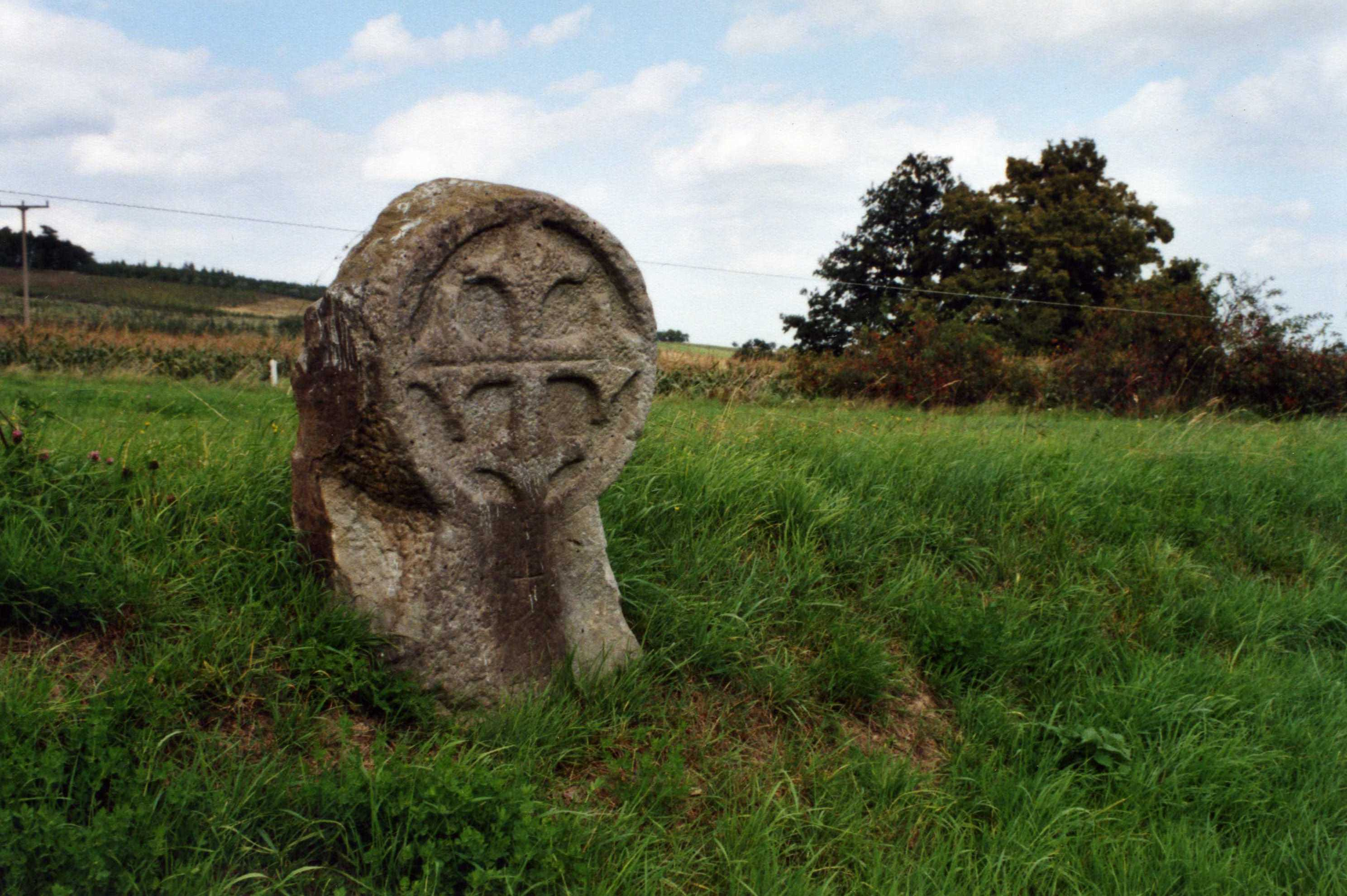 This image shows a stone cross in Großröhrsdorf near Liebstadt.